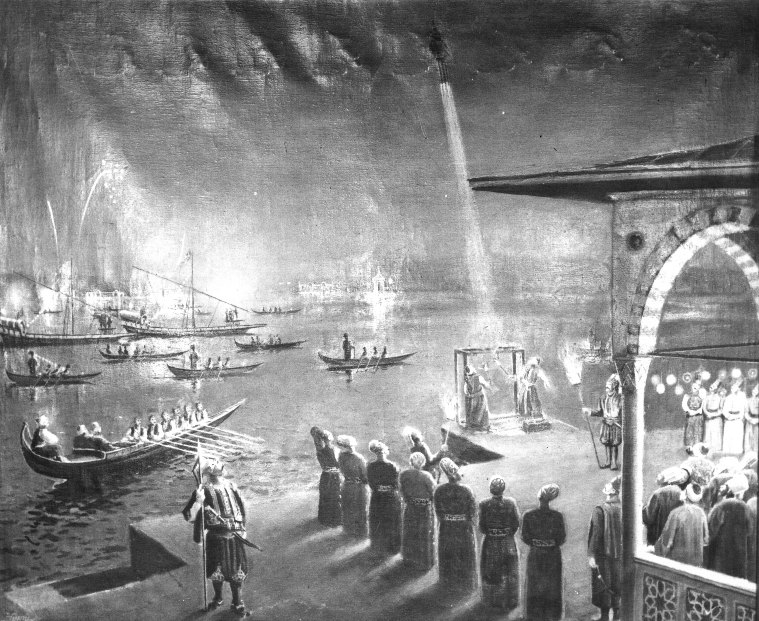 Picture of Lagâri Hasan Çelebi and his rocket.